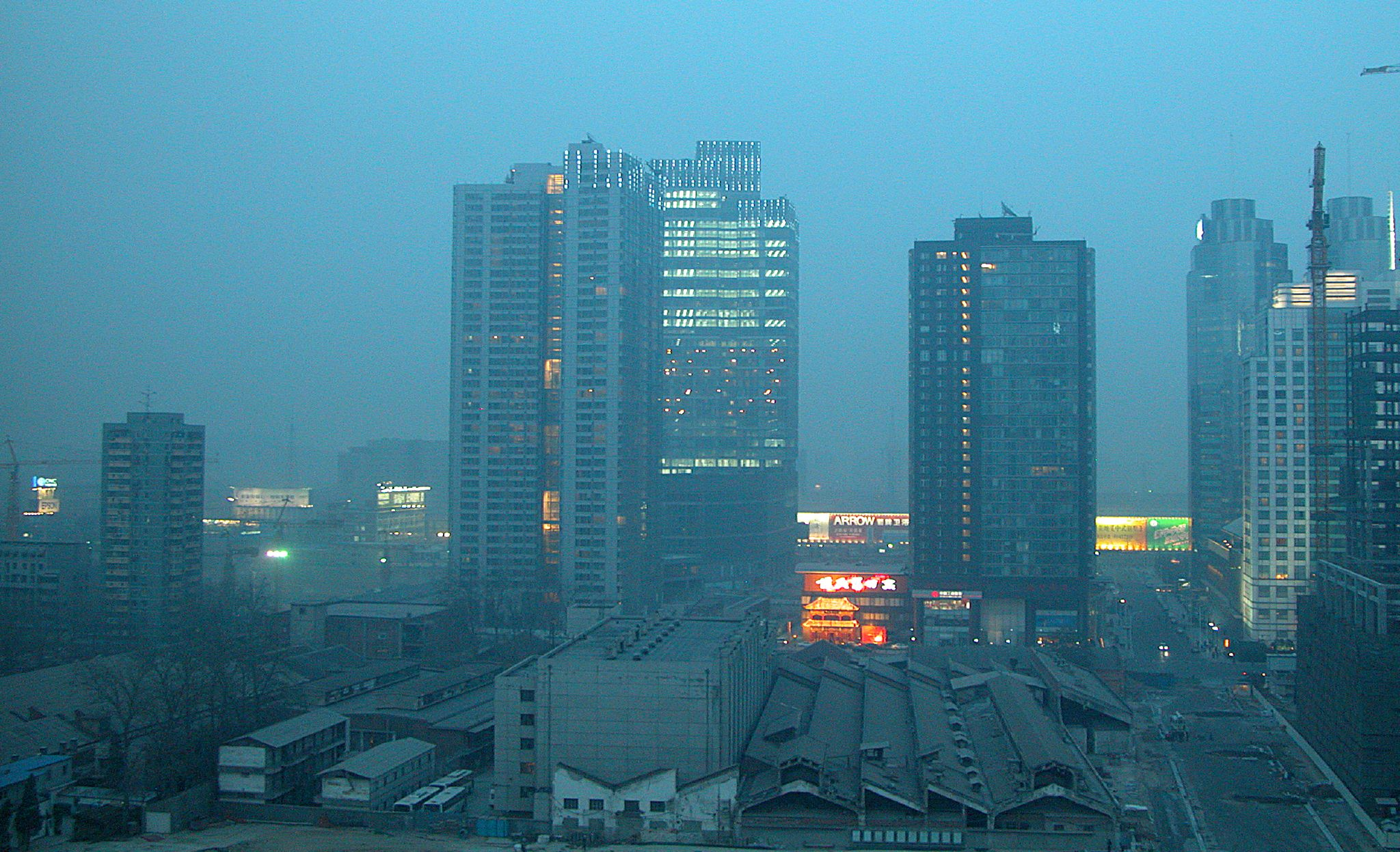 Beijing, in the thick of a hot, gritty sand storm, brought about because of desertification of the land to the north-west.Grit